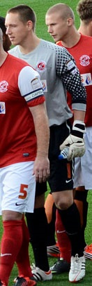 Scott Davies. Image cropped from original at flickr.